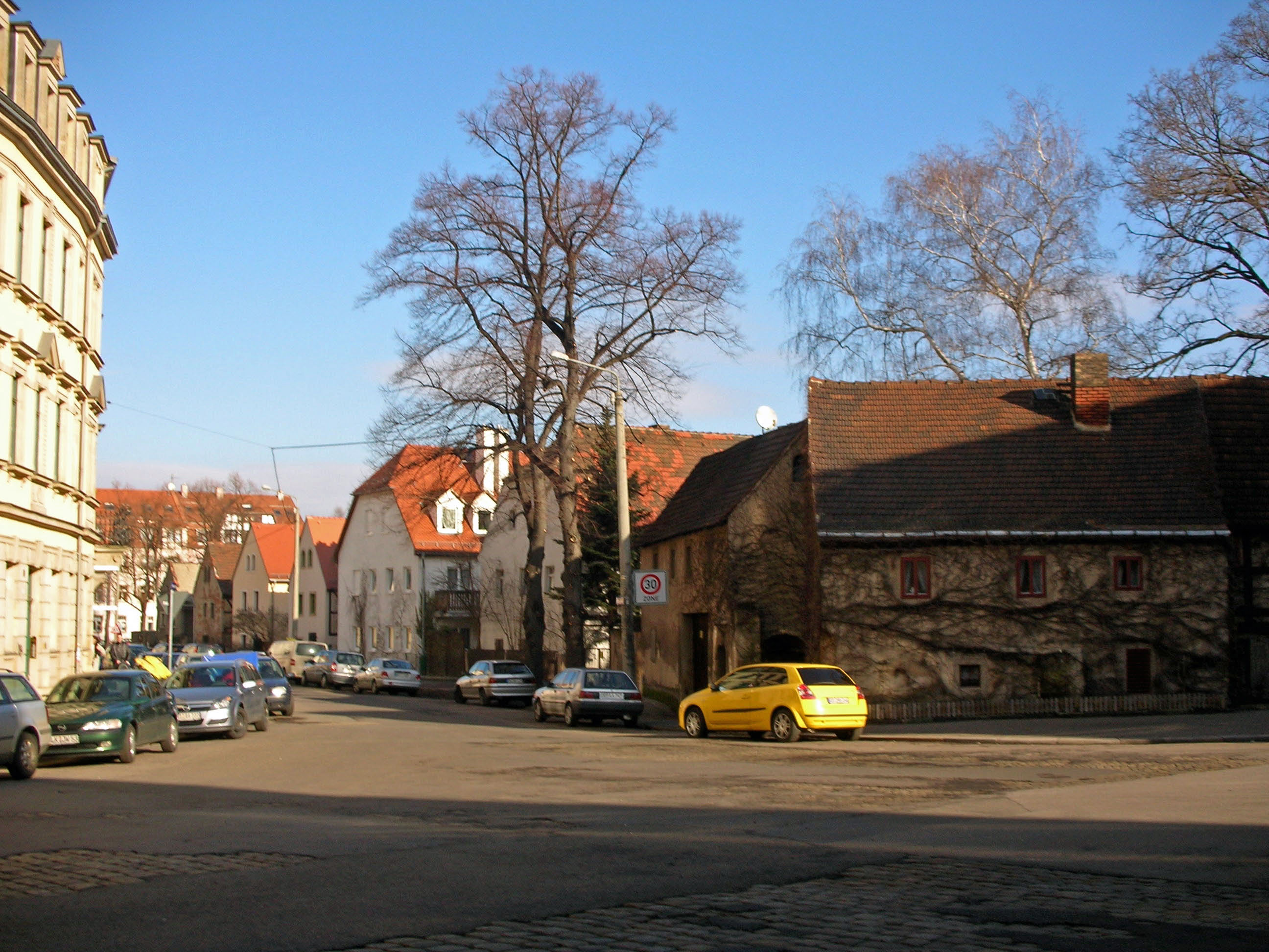 Altpieschen in Dresden, Germany